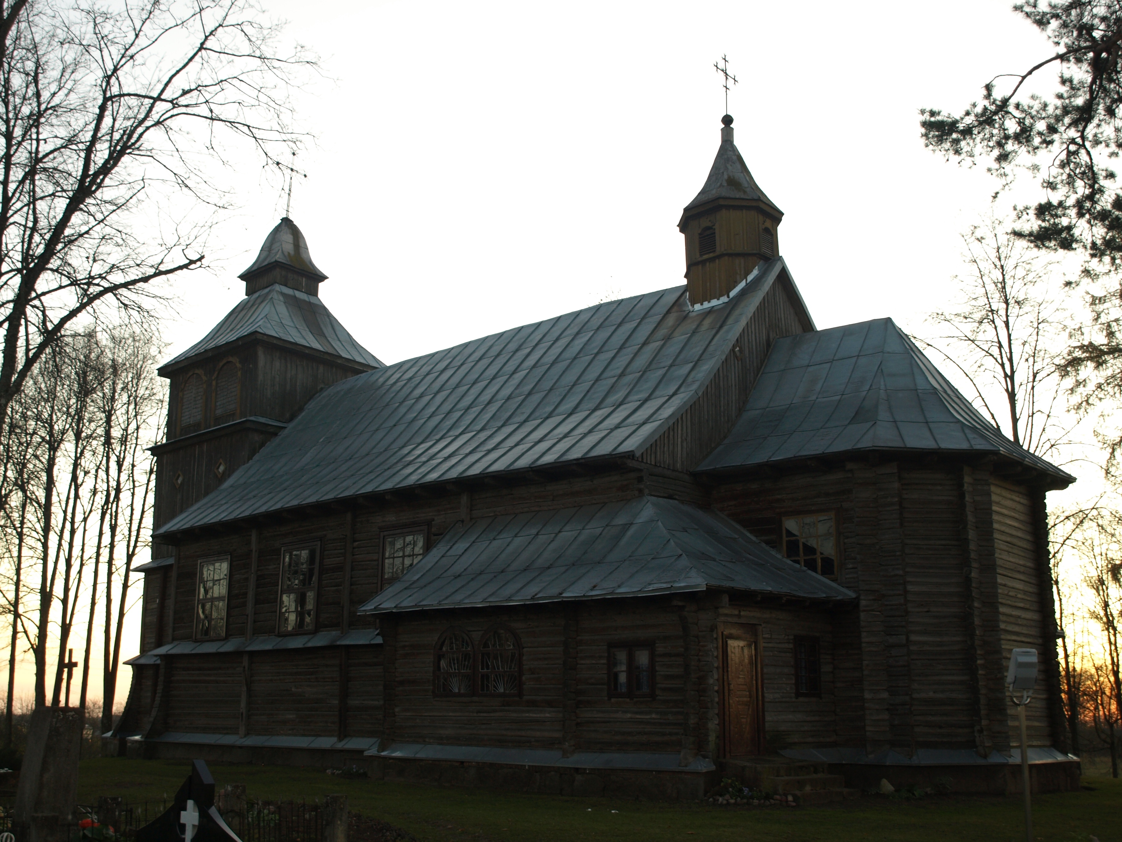 Alionys church, Širvintos district, Lithuania